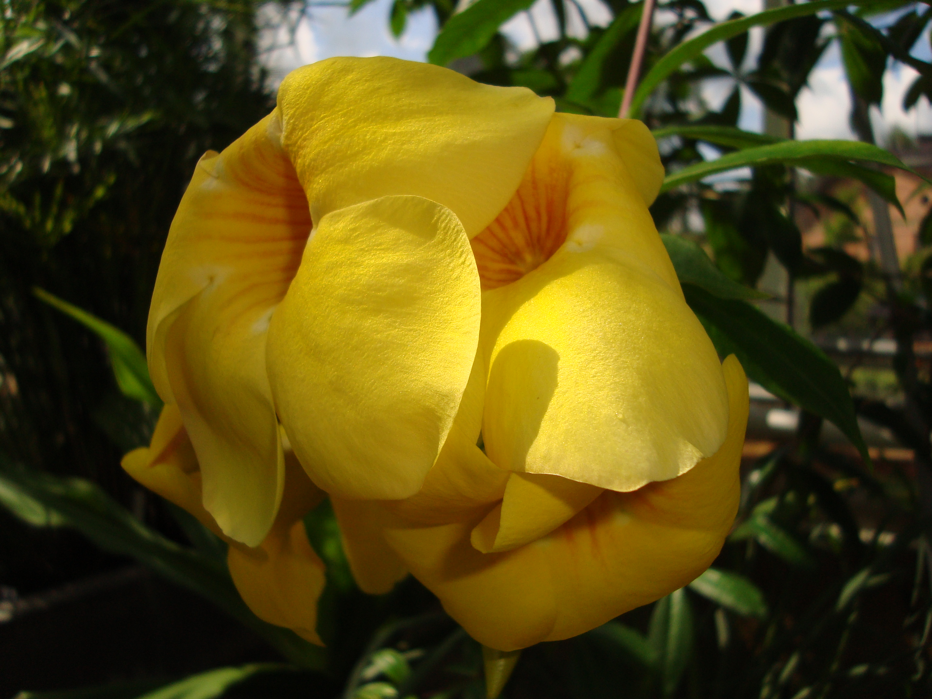 Allamanda cathartica var. Grandiflora, Uppsala botanical garden, Sweden